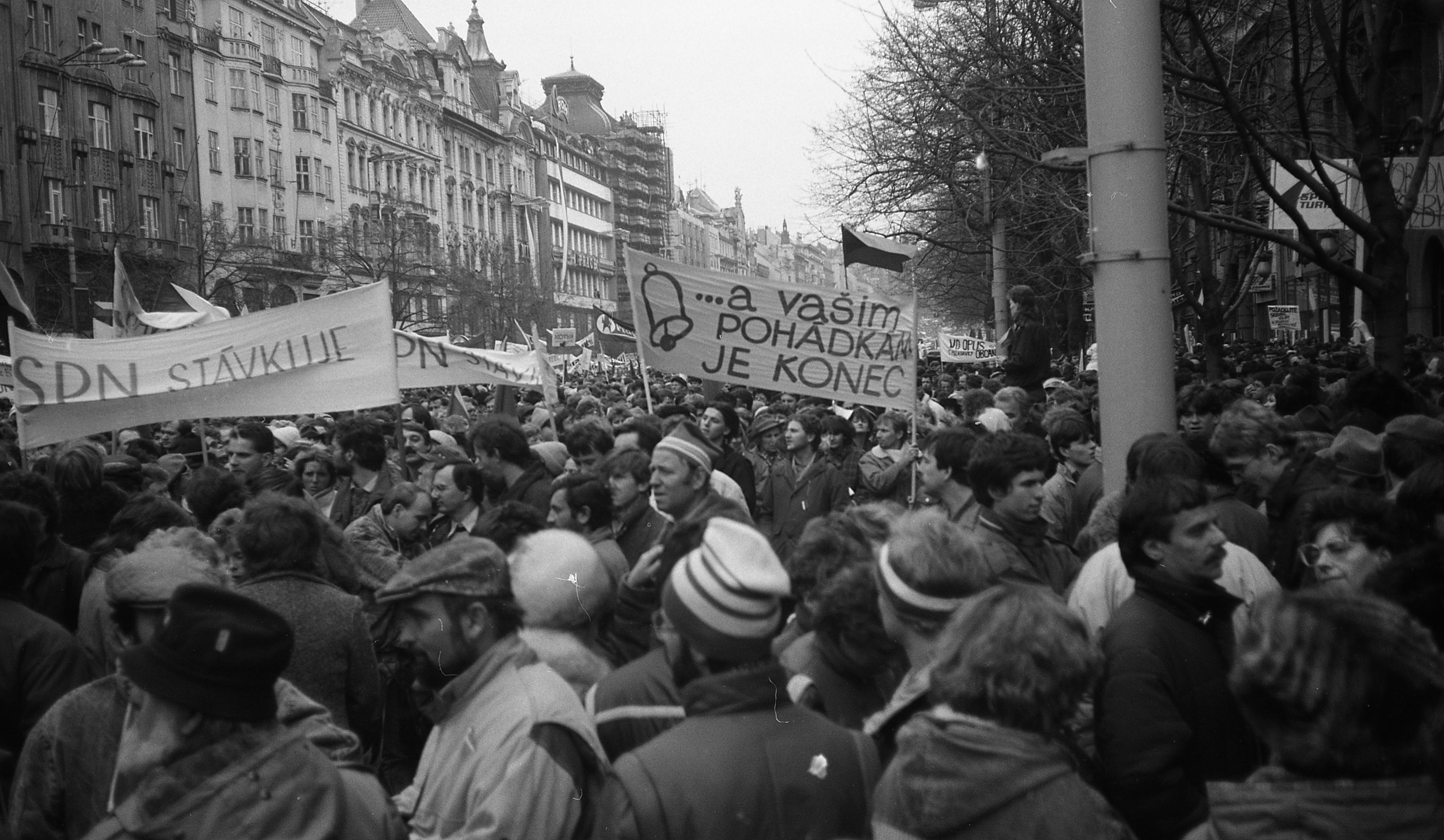 Street photo from the "Velvet revolution" in Prague 1989